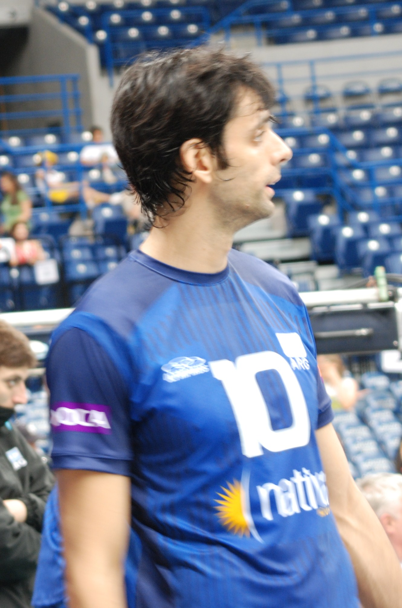 Argentine volleyball player Alejandro Spajic